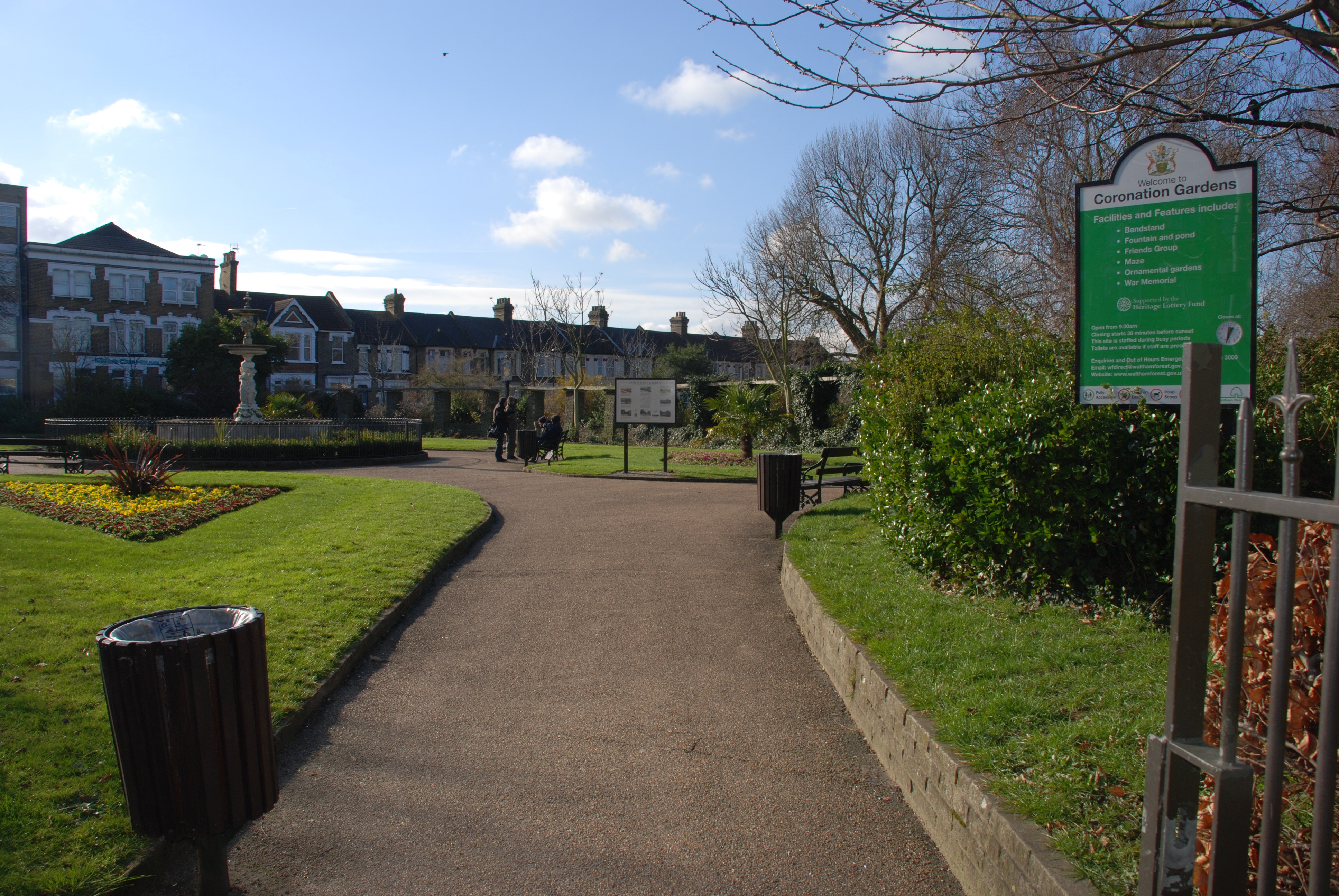 Coronation Gardens in Leyton, east London